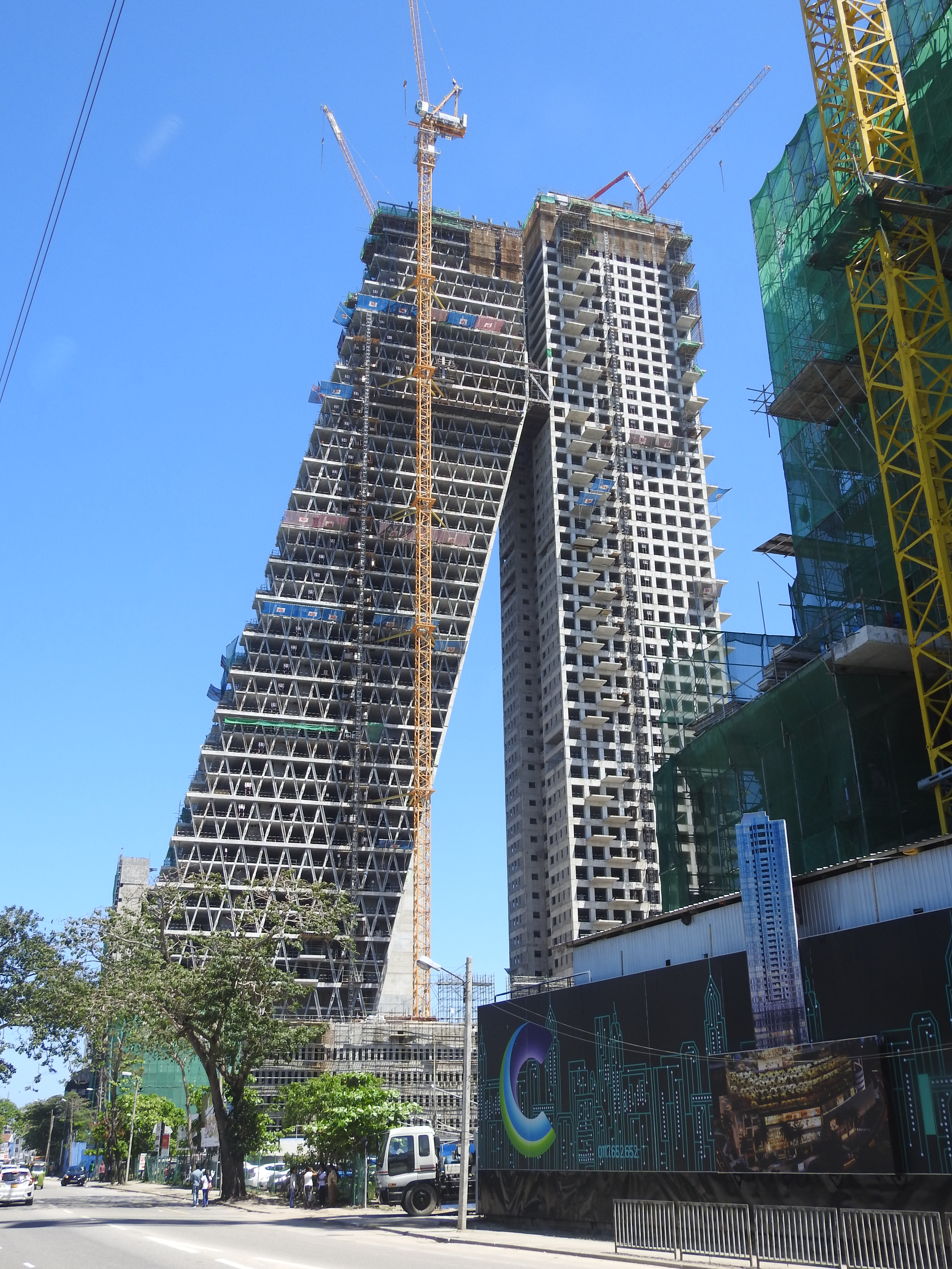 Photos of current/future skyscrapers (and its surroundings) in Colombo, taken by User:Rehman and User:Azeez as part of a photowalk project by Wikimedia Community User Group Sri Lanka. The photowalk covered most of the tallest structures in Colombo that are either completed or under construction. Further information on the subject(s) of the photograph can be found in the category/ies of this file.